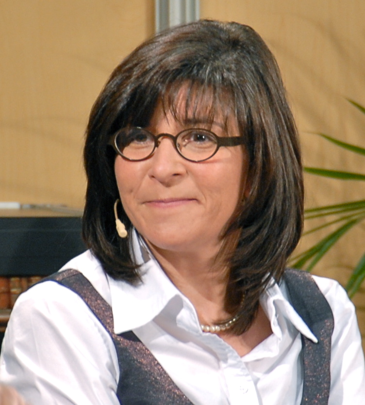 Marie Grégoire, at the Québec international book fair 2010, at the Québec convention center, during an edition of Le Club des ex taking place there